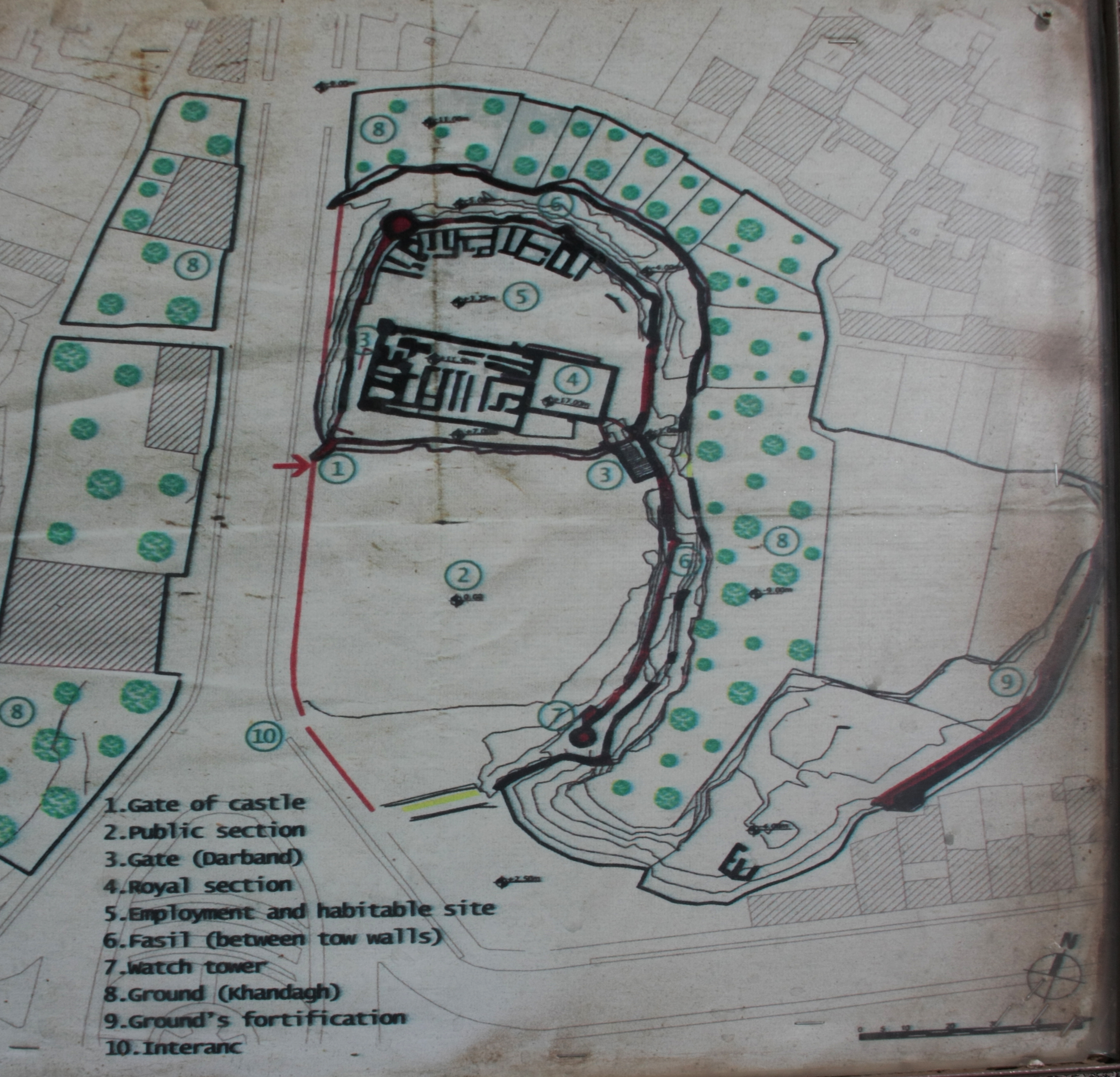 Map of Narin Castle